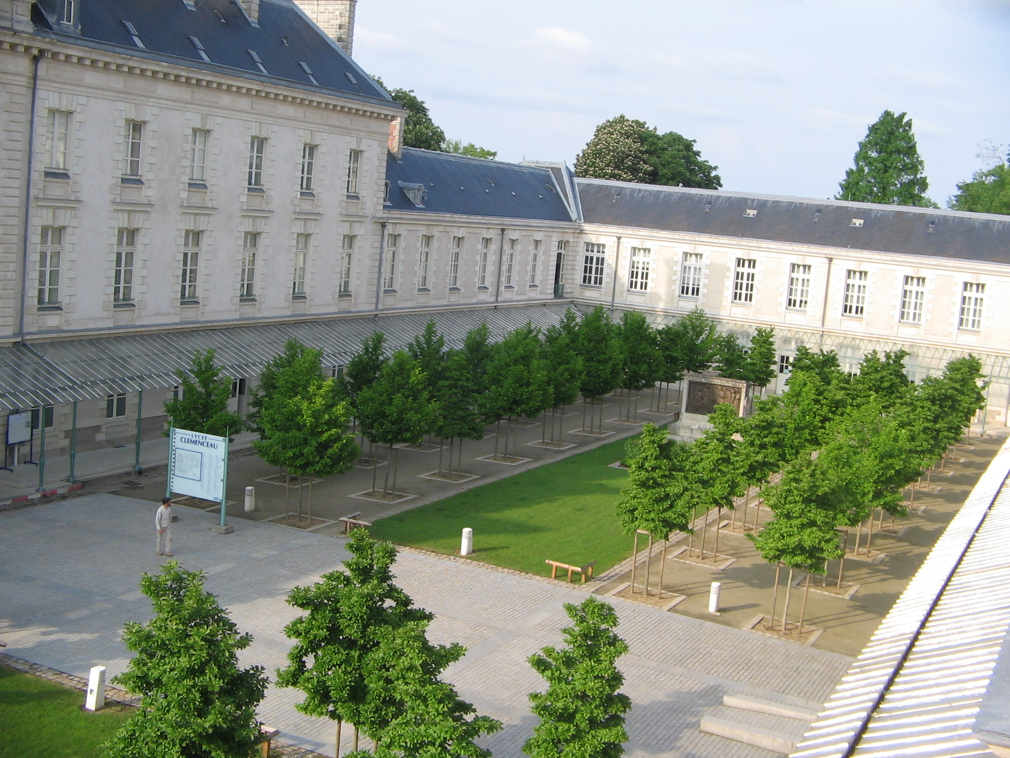 A view of the eastern half of the court of honor (Cour d'honneur) after high school renovation